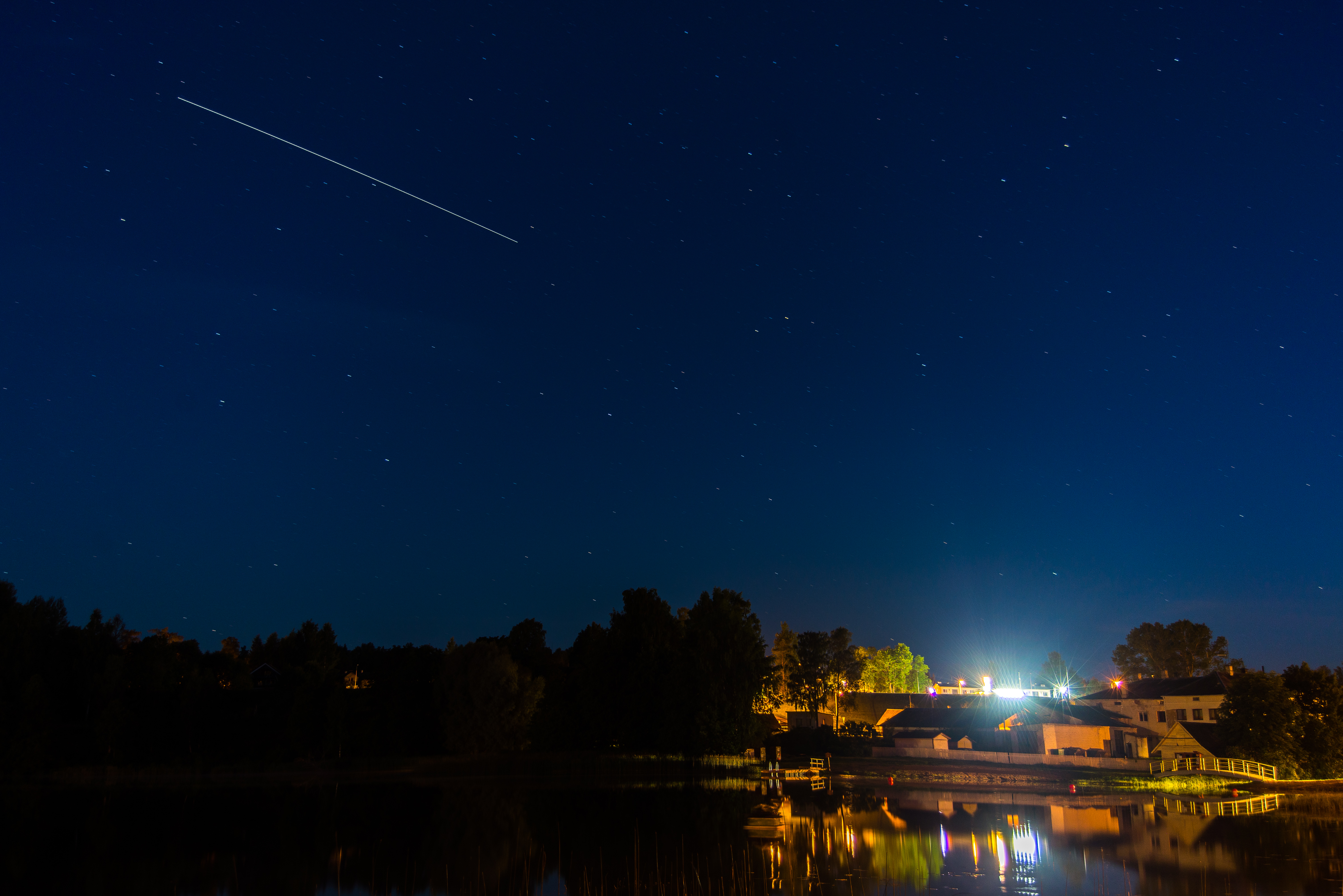 International Space Station over the deepest lake in Estonia - Rõuge Suurjärv.